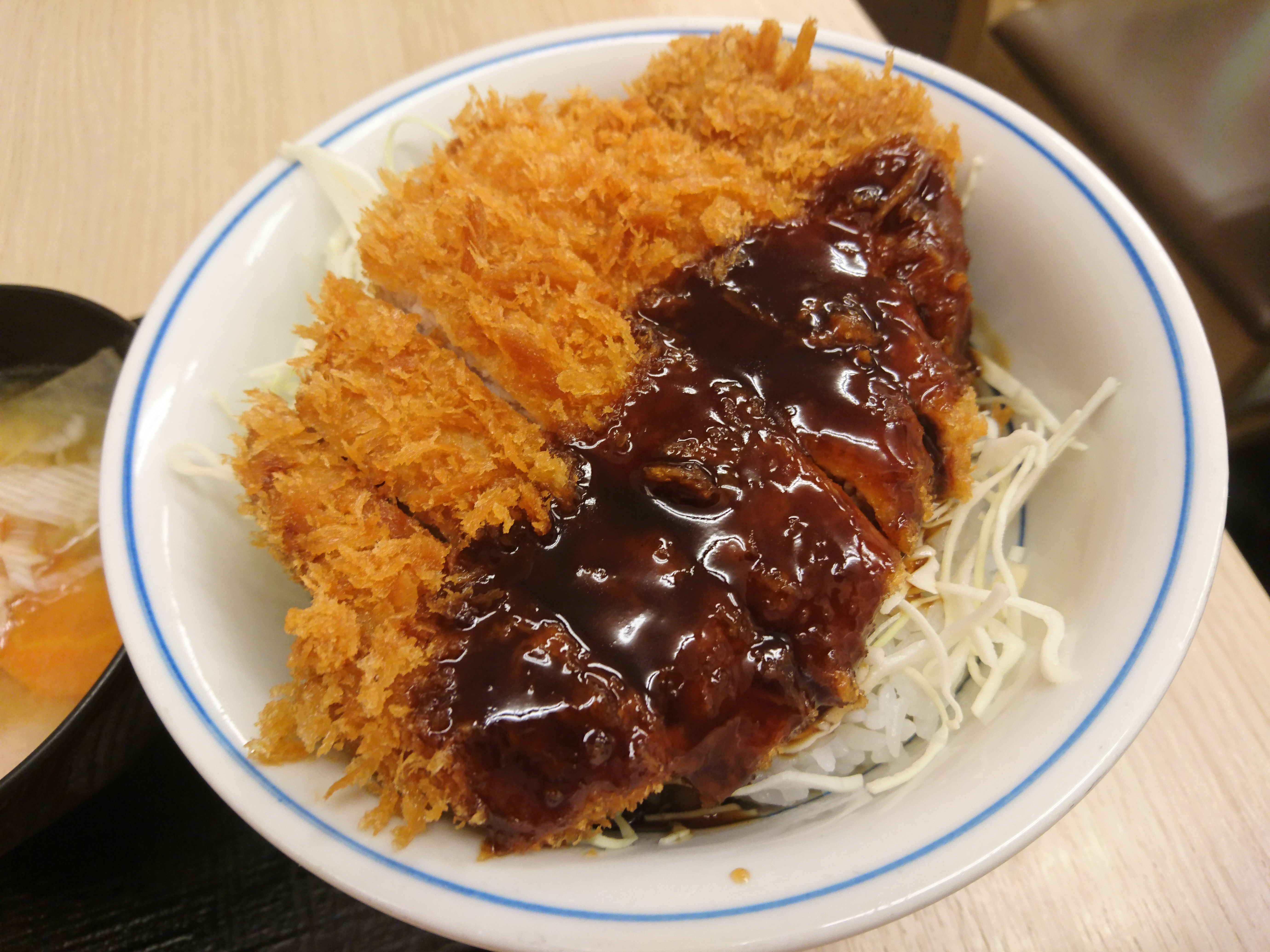 Sauce Katsudon in Hong Kong